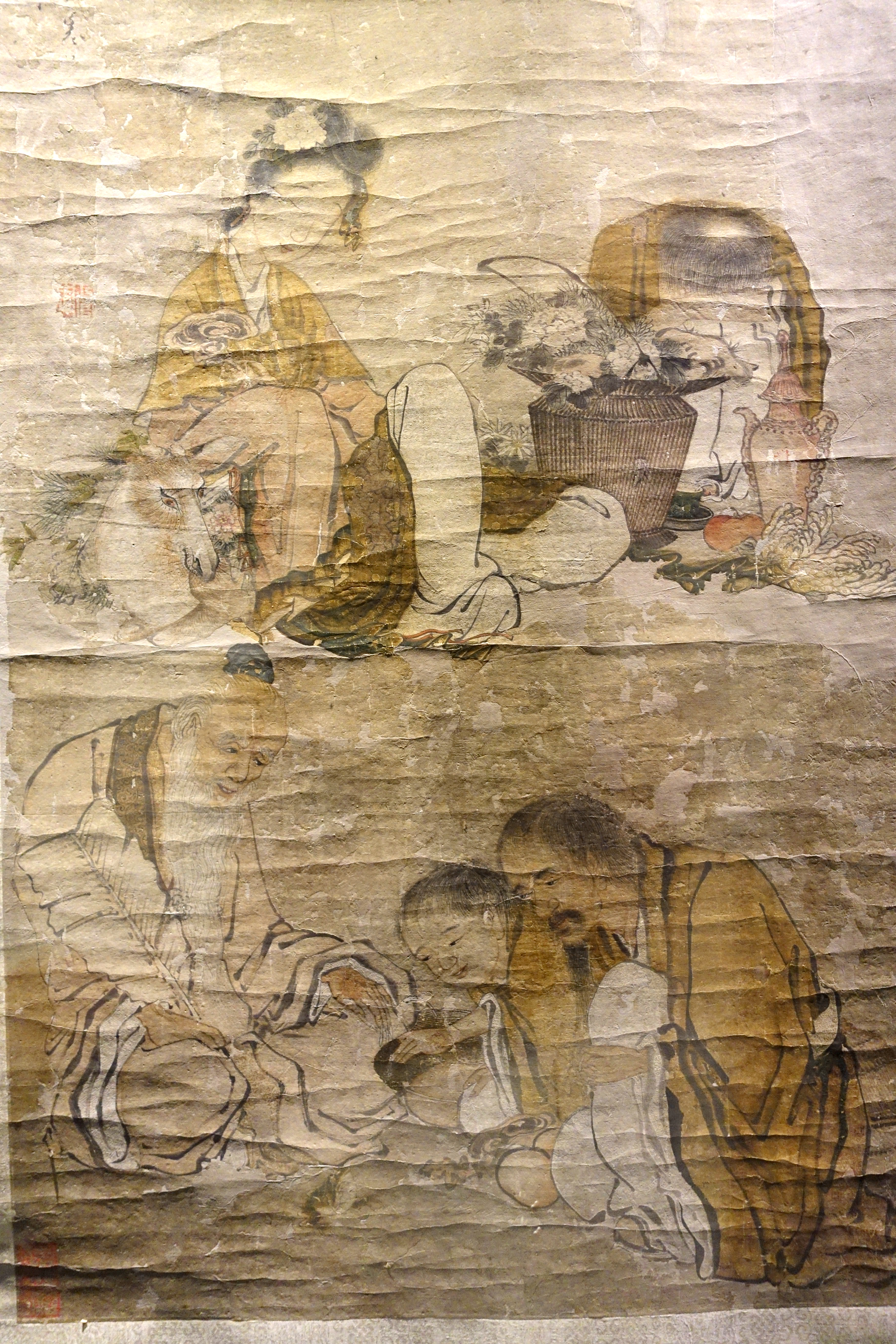 Exhibit in the Museu do Oriente - Lisbon, Portugal. This work is old enough so that it is in the public domain.